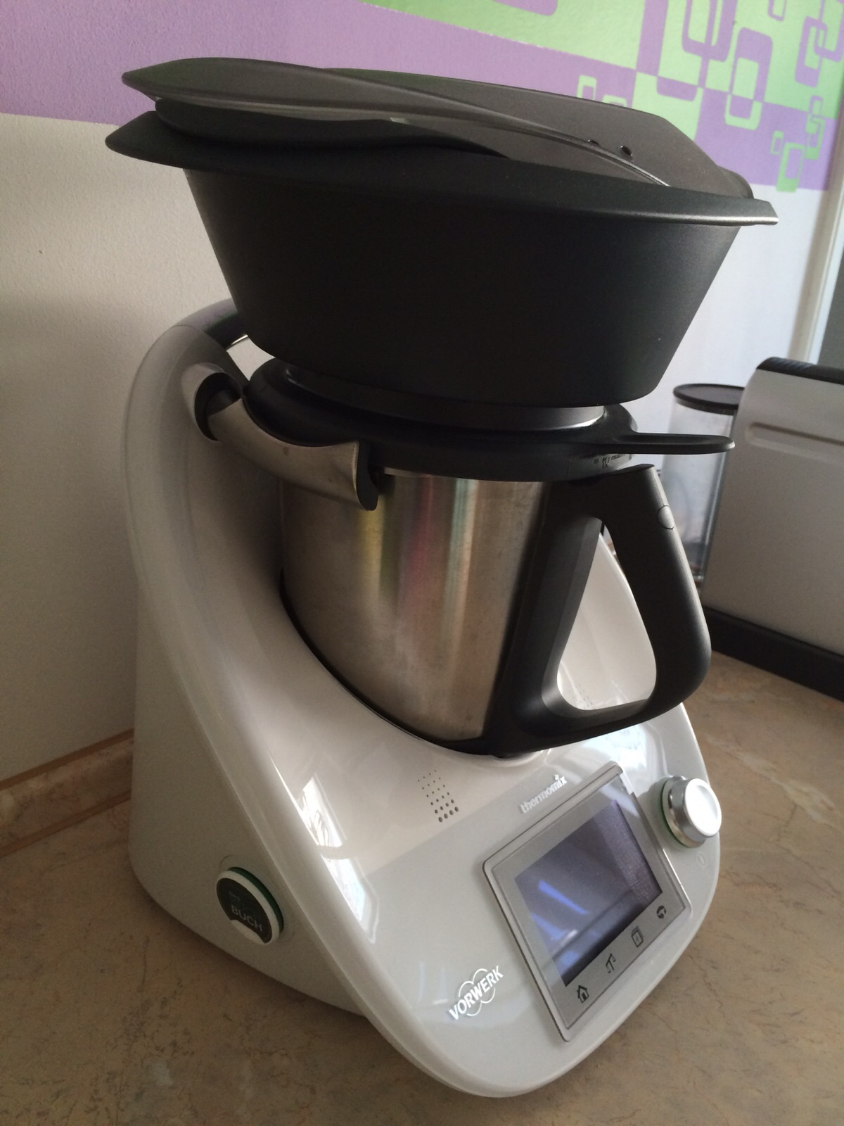 Thermomix 2014